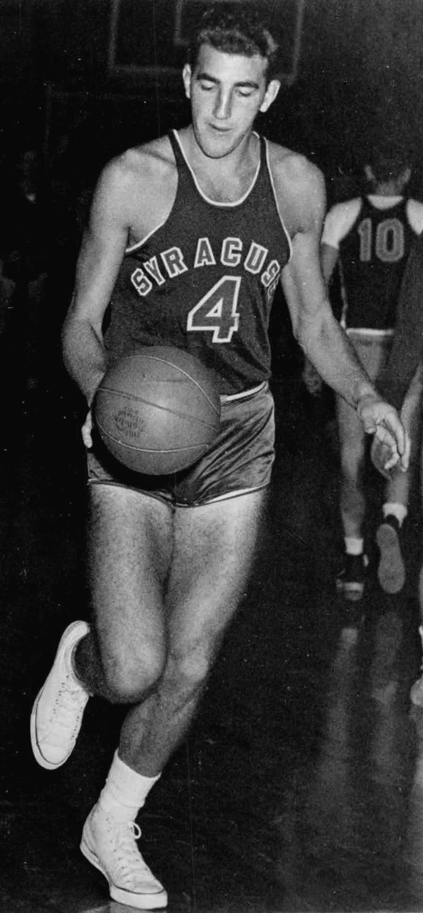 Professional basketball player Dolph Schayes